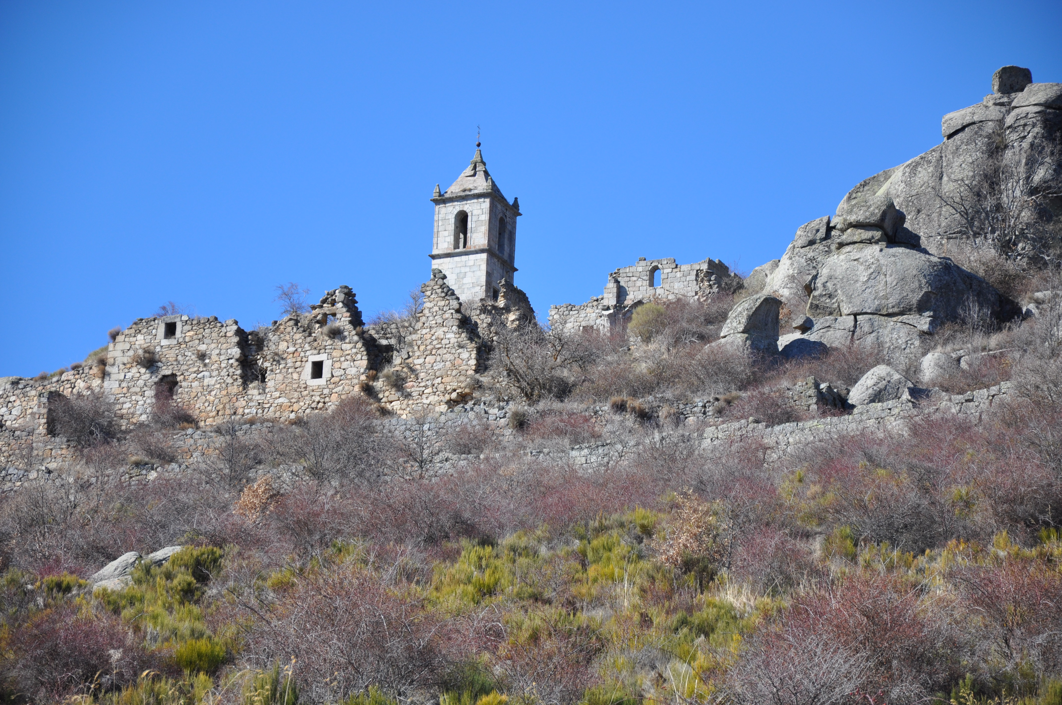 Ruins of the Augustinian Monastery of Nuestra Señora del Risco, Amavida, Ávila, Spain